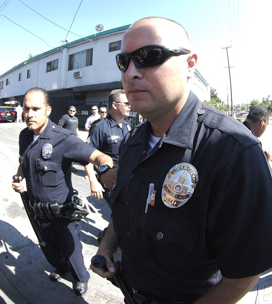 U.S. police officers from the Los Angeles Police Department (LAPD), at a crime scene in July 2007.